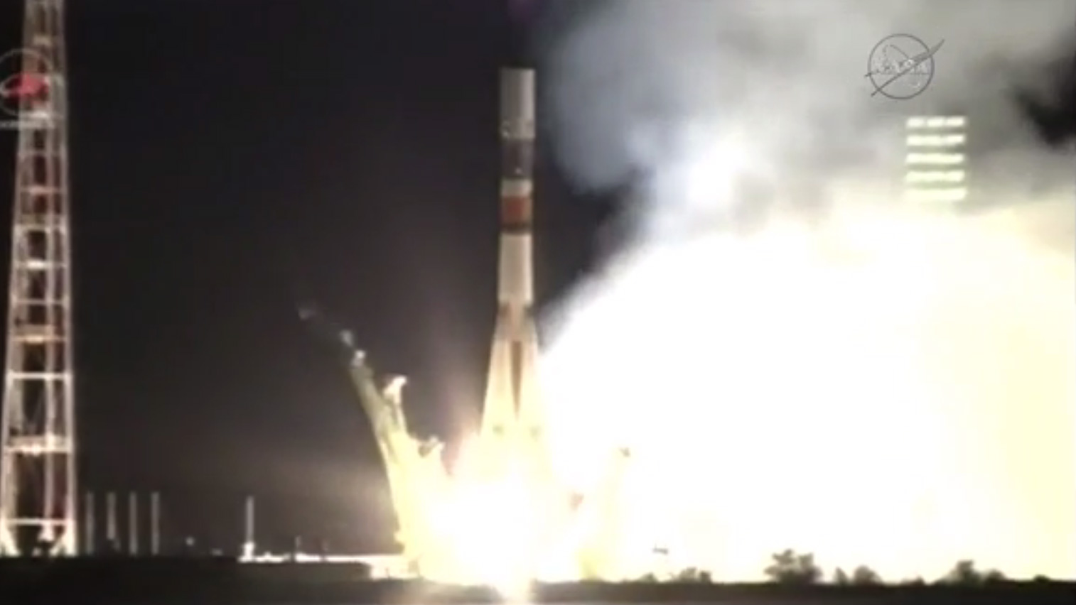 The Progress 61 (Progress M-29M) rocket launches on time for a six-hour flight to the International Space Station.